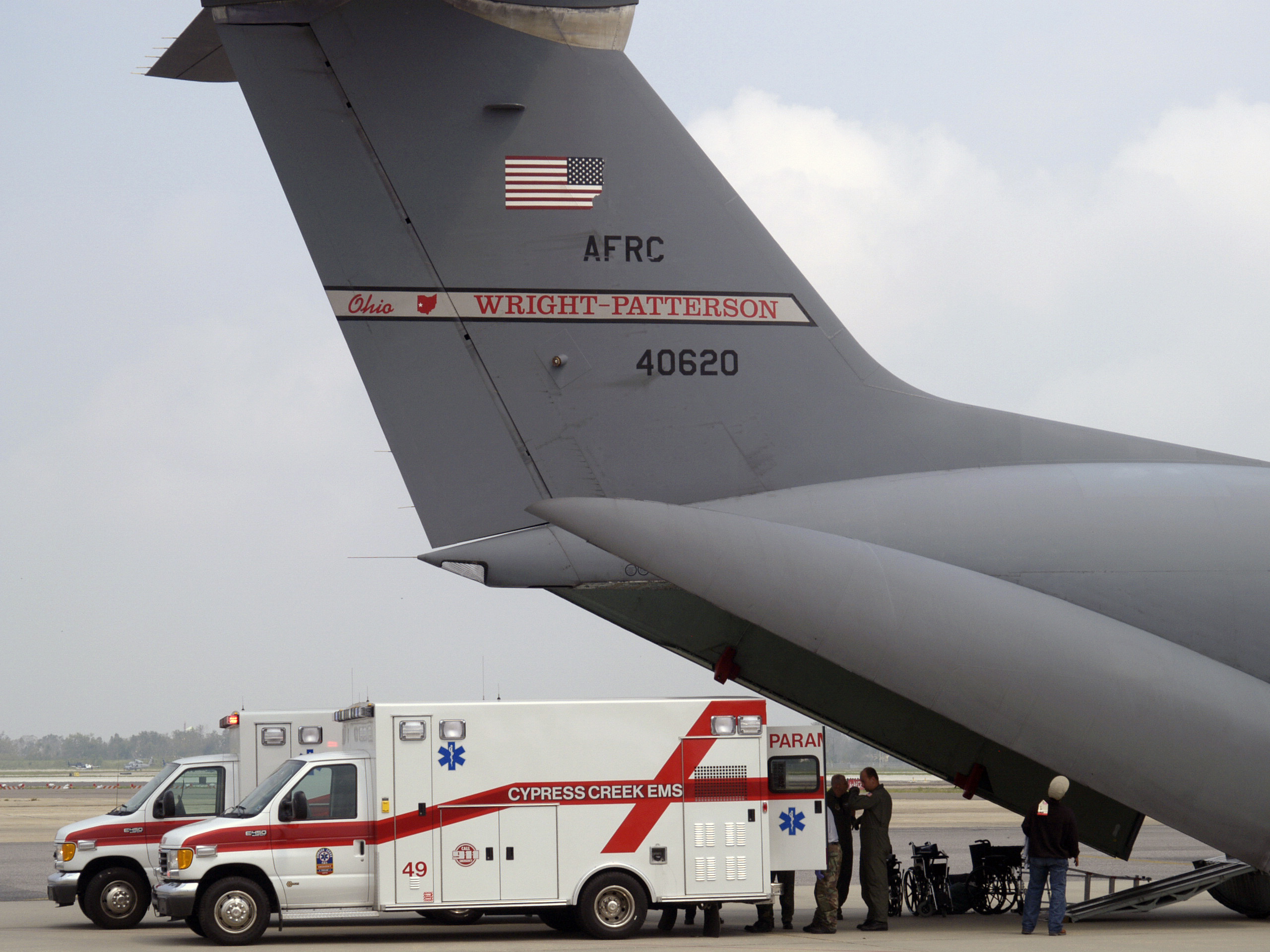 New Orleans, La., September 1, 2005 -- Evacuees and patients leave on a C-140 Med-Vac (40620) from New Orleans airport where FEMA's D-MATs have set up operations. Photo: Michael Rieger/FEMA